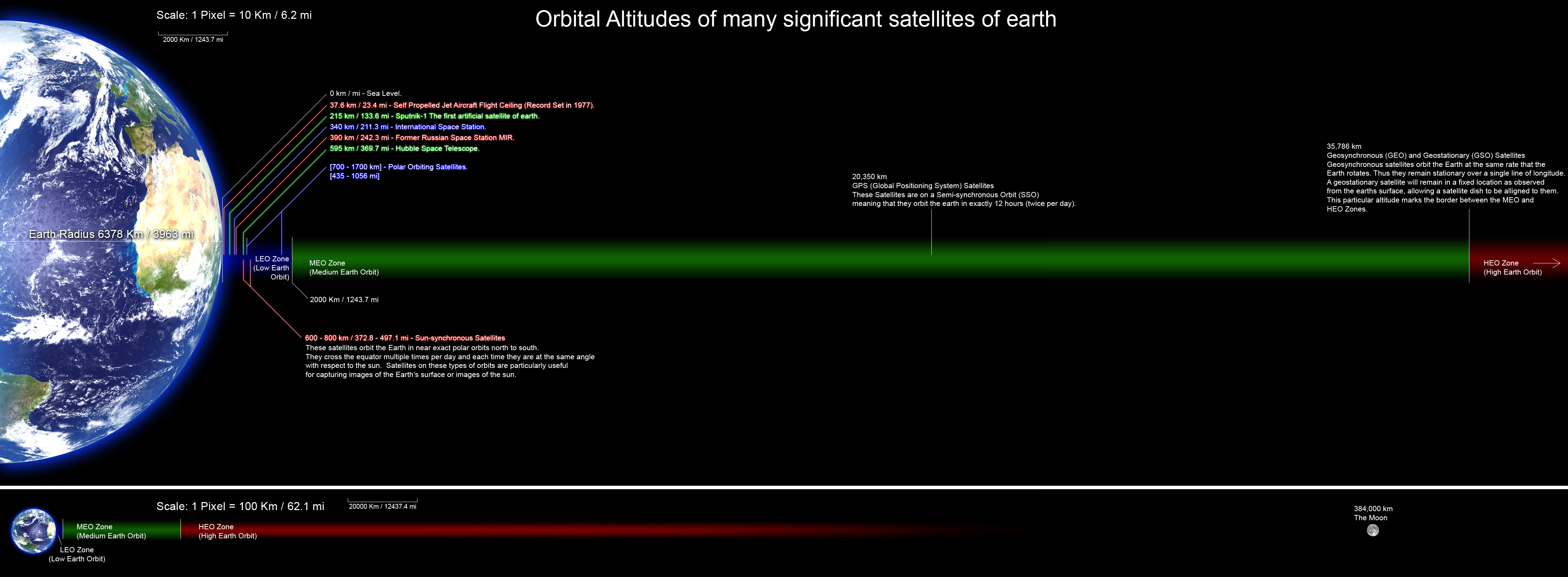 A perfectly scaled diagram showing the orbital altitudes of several significant satellites of earth. all planets and orbital distances are drawn to scale and the altitude data was collected from many Wikipedia articles and various other sites.